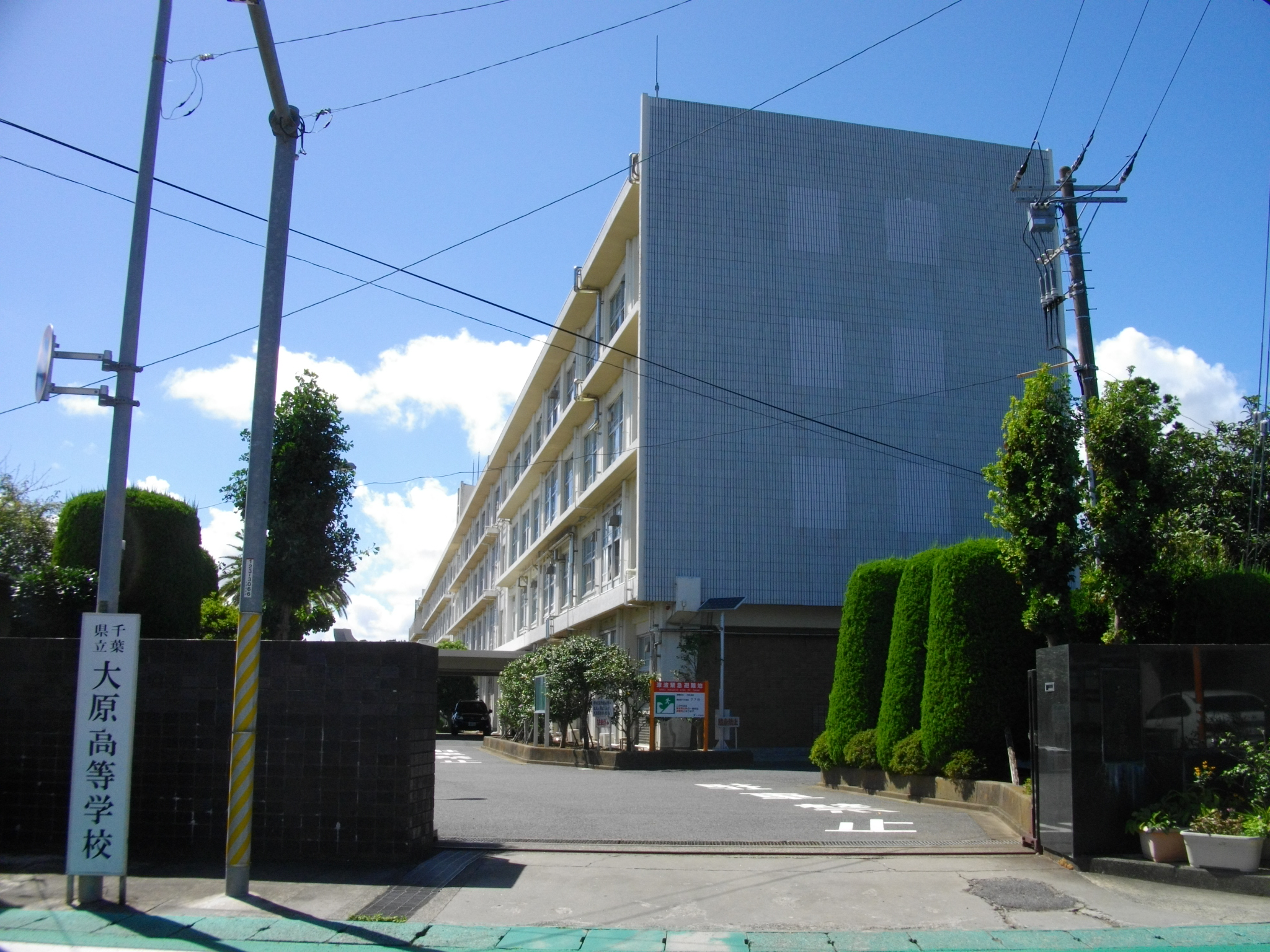 Chiba Prefectural Ohara High School